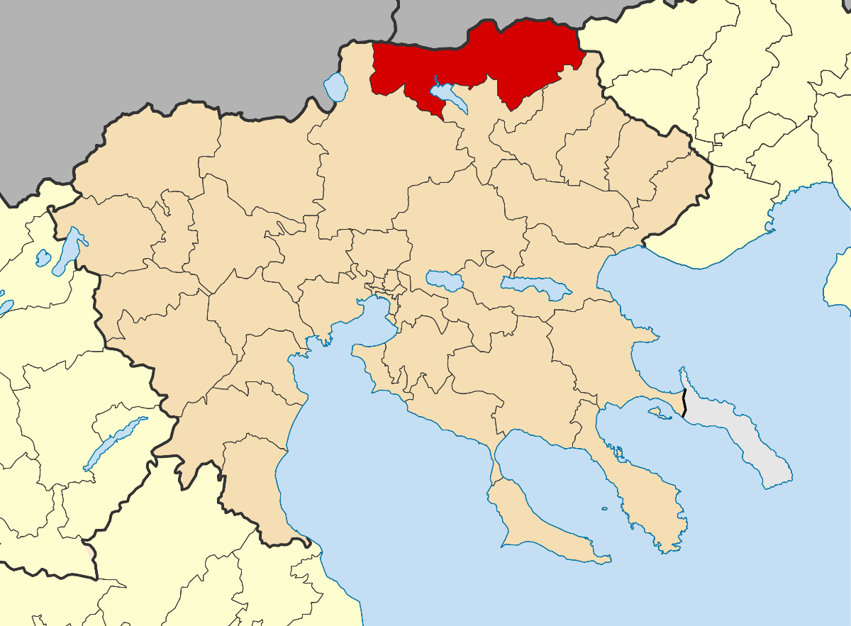 Locator map for Sindiki municipality in Greek region Central Macedonia (2011)